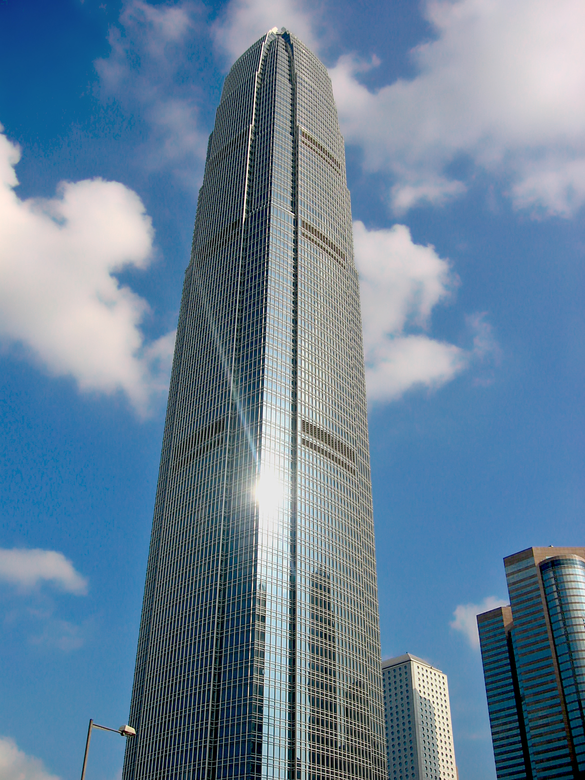 2IFC. Tallest Building in Hong Kong. John Kam.